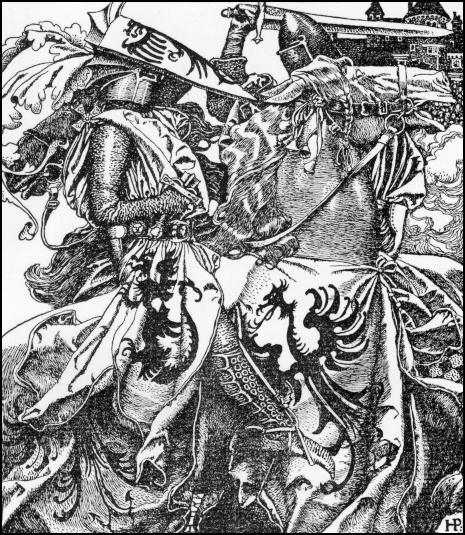 Sir Kay breaketh his sword at ye Tournament